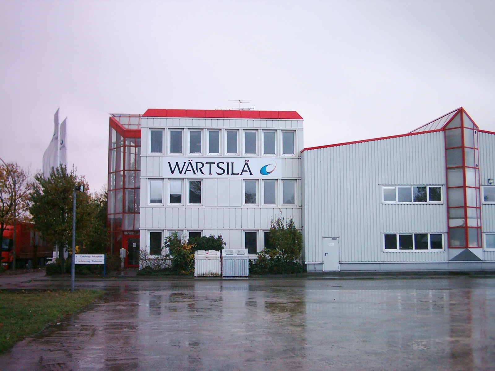 Branch of Wärtsilä in Hamburg-Wilhelmsburg, Germany.